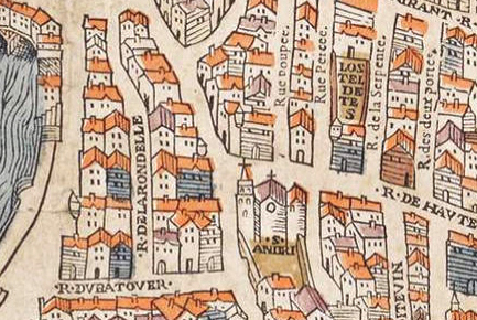 Saint-André-des-Arts church on the Plan de Truschet and Hoyau (1550).